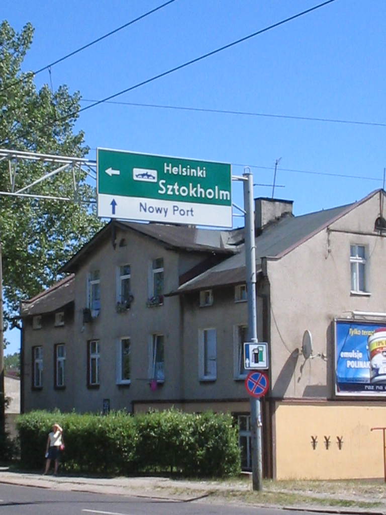 Gdańsk Nowy Port - Oliwska Street